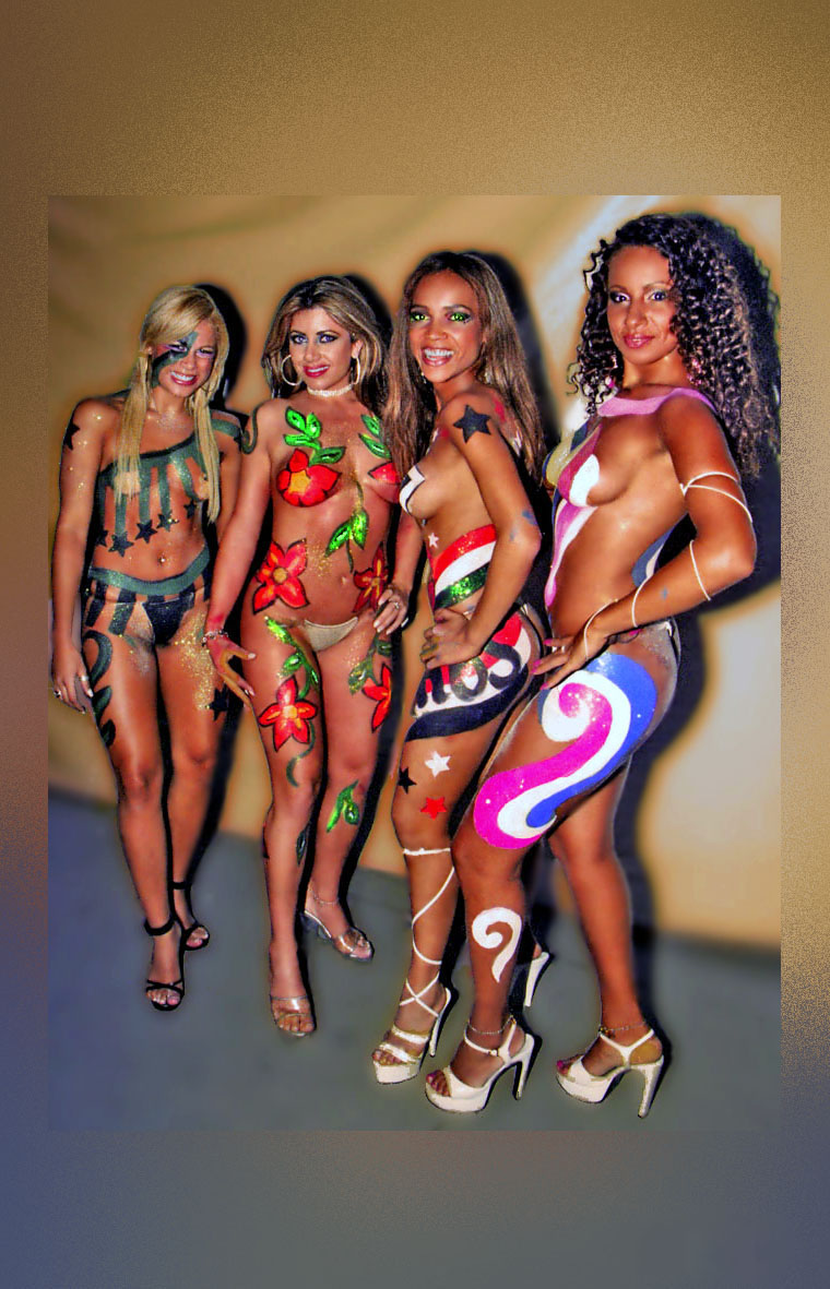 Body painting.